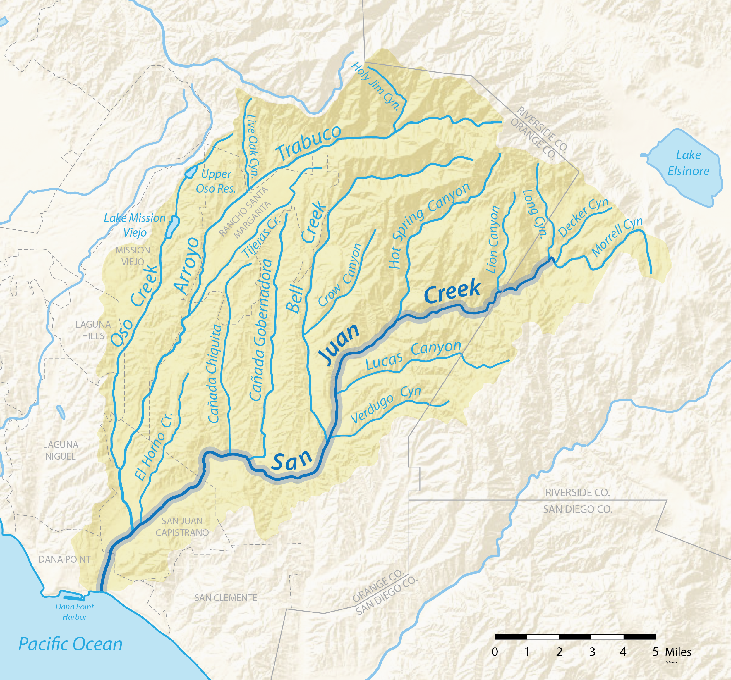 Map of the San Juan Creek watershed, California. Replace earlier version.